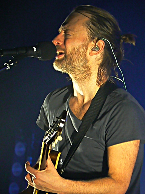 Thom Yorke in Japan (2013)